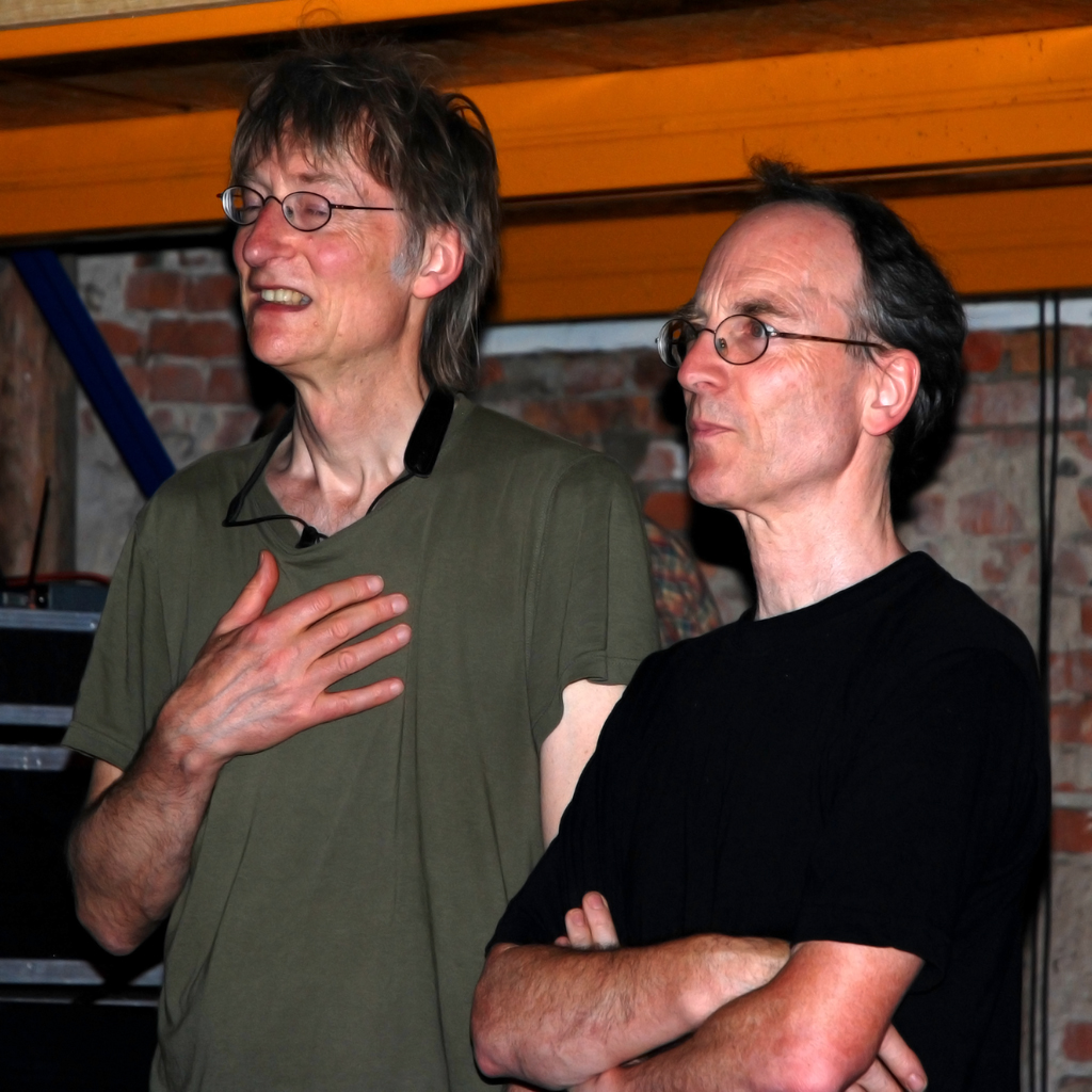 Tim Hodgkinson (left) and Chris Cutler at the Avantgarde Festival in Schiphorst, Germany, 2008-07-06.